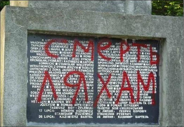 "Death to the Pollacks!" - The monument to the executed Polish professors vandalized in Lviv, western Ukraine, November 2011.